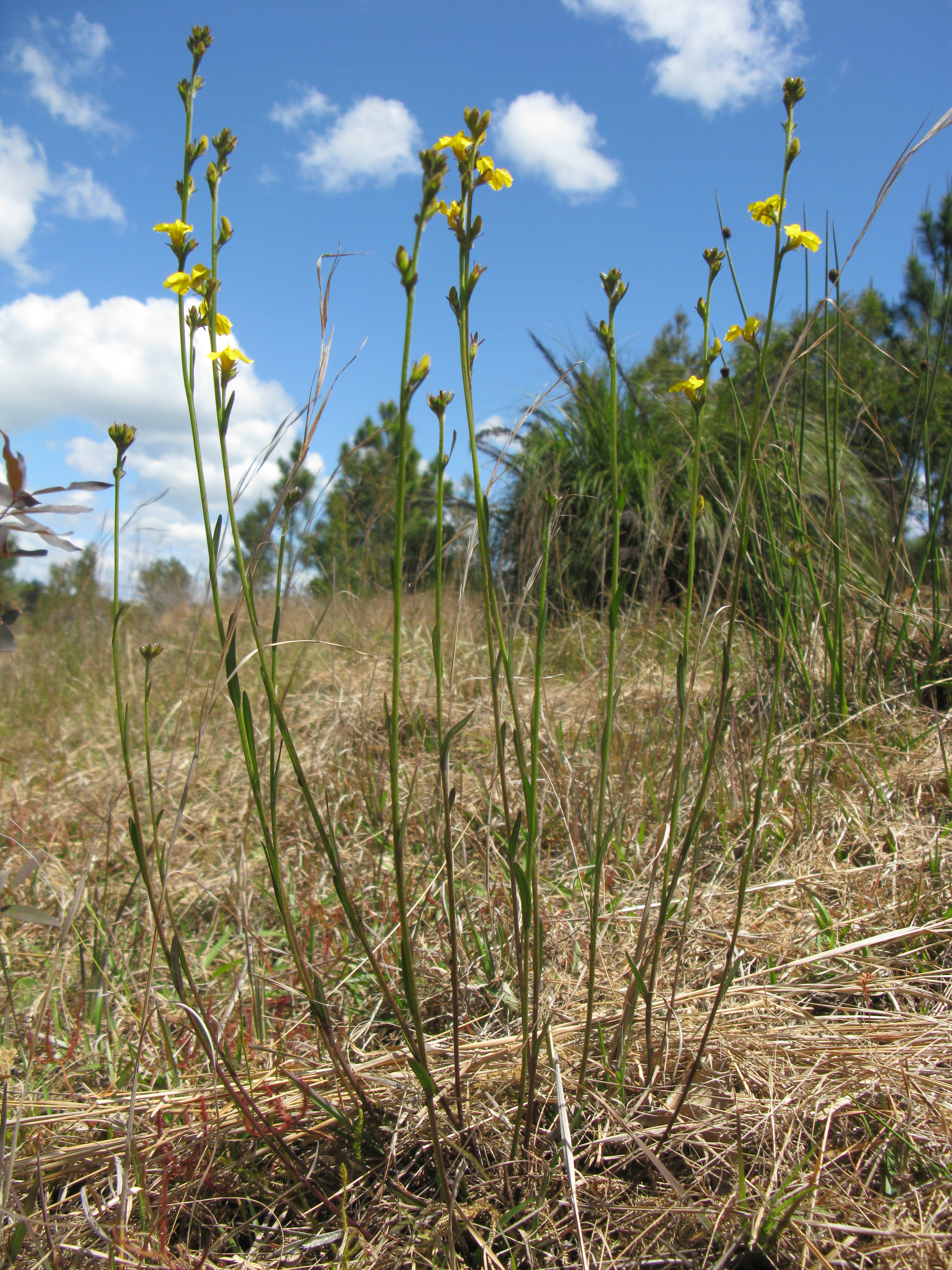 Native, erect, mostly hairless herb to 60 cm tall. Grows in swamps on sandstone. Here it is growing next to the South West Rocks golf course in a wet heath that is moist to wet for most of the year.